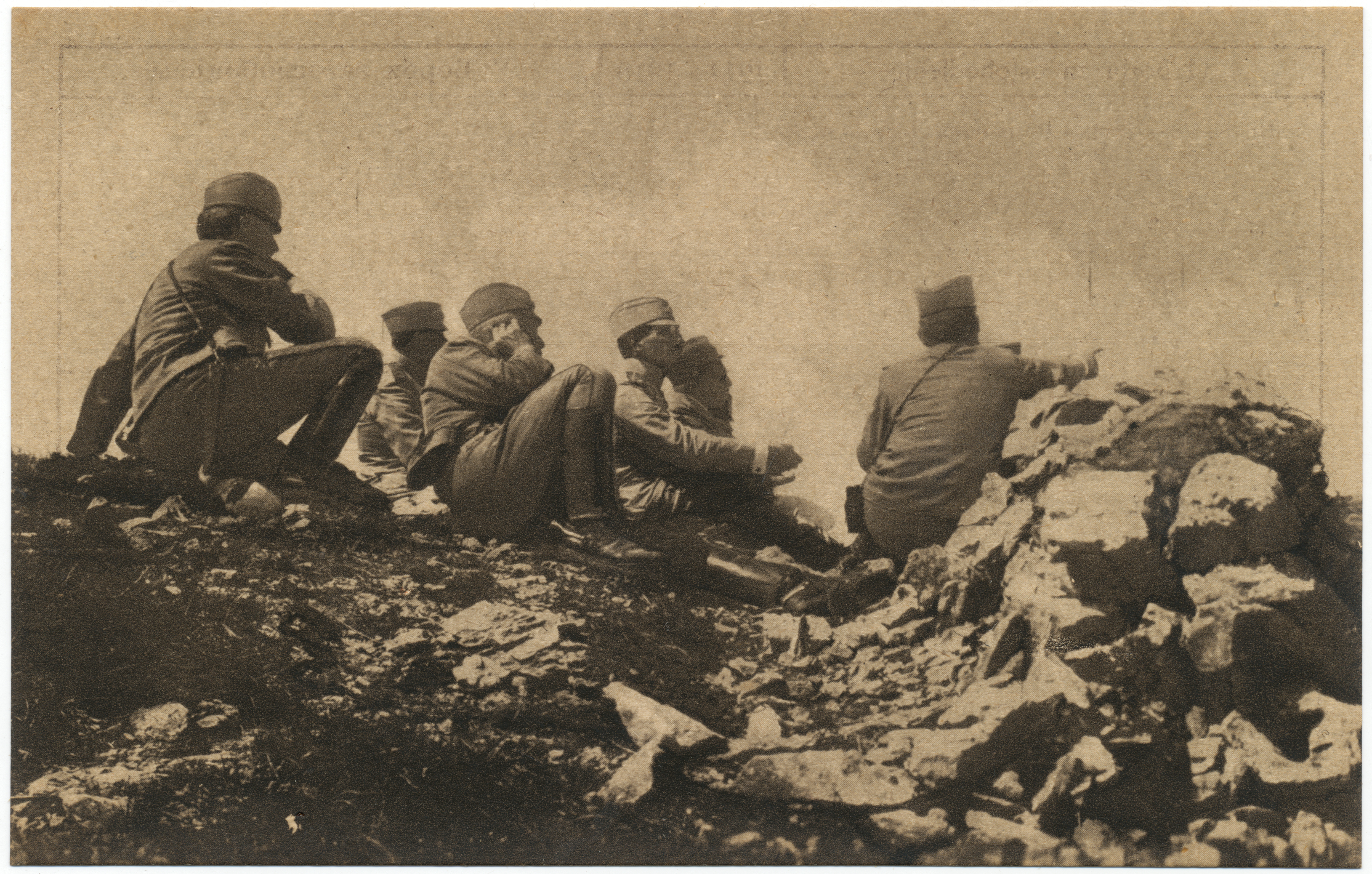 Prince Aleksandar with officers watching military positions on Kajmakčalan